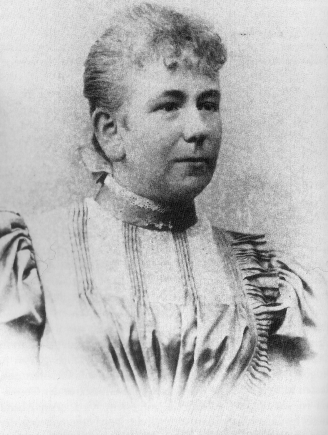 Emilie, (*1849), the daughter of Johann Wilhelm Preyer.